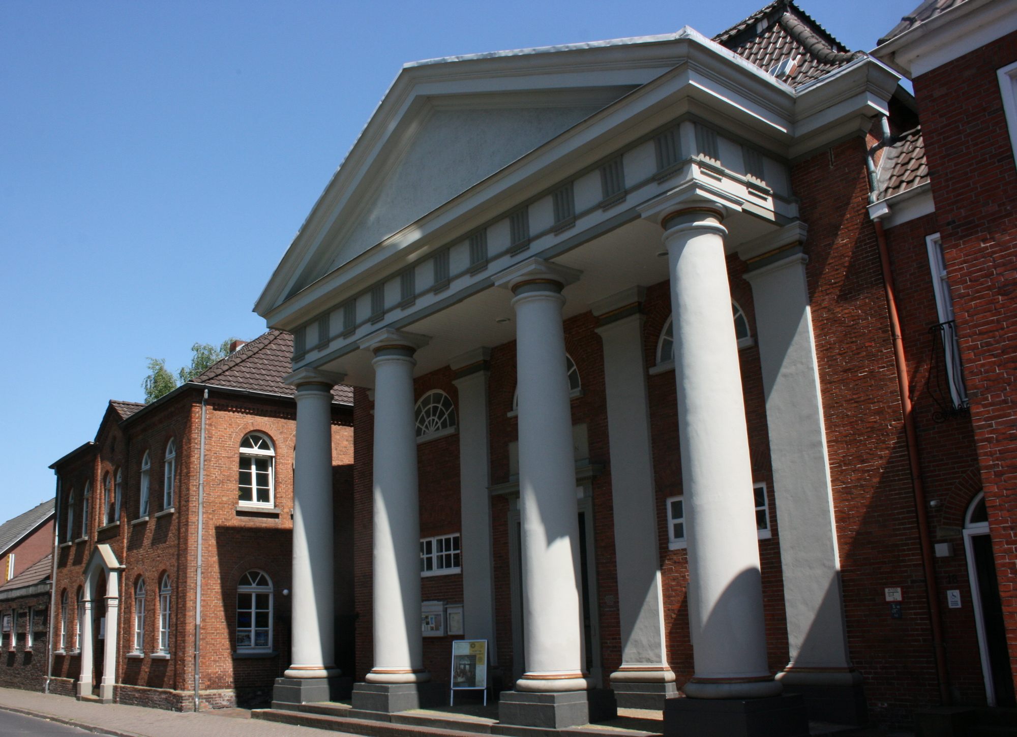 The Reformed Church in Aurich, East Frisia, Lower Saxony, Germany, is owned and used by a Reformed congregation within the Evangelical Reformed Church – Synod of Reformed Churches in Bavaria and Northwestern Germany.